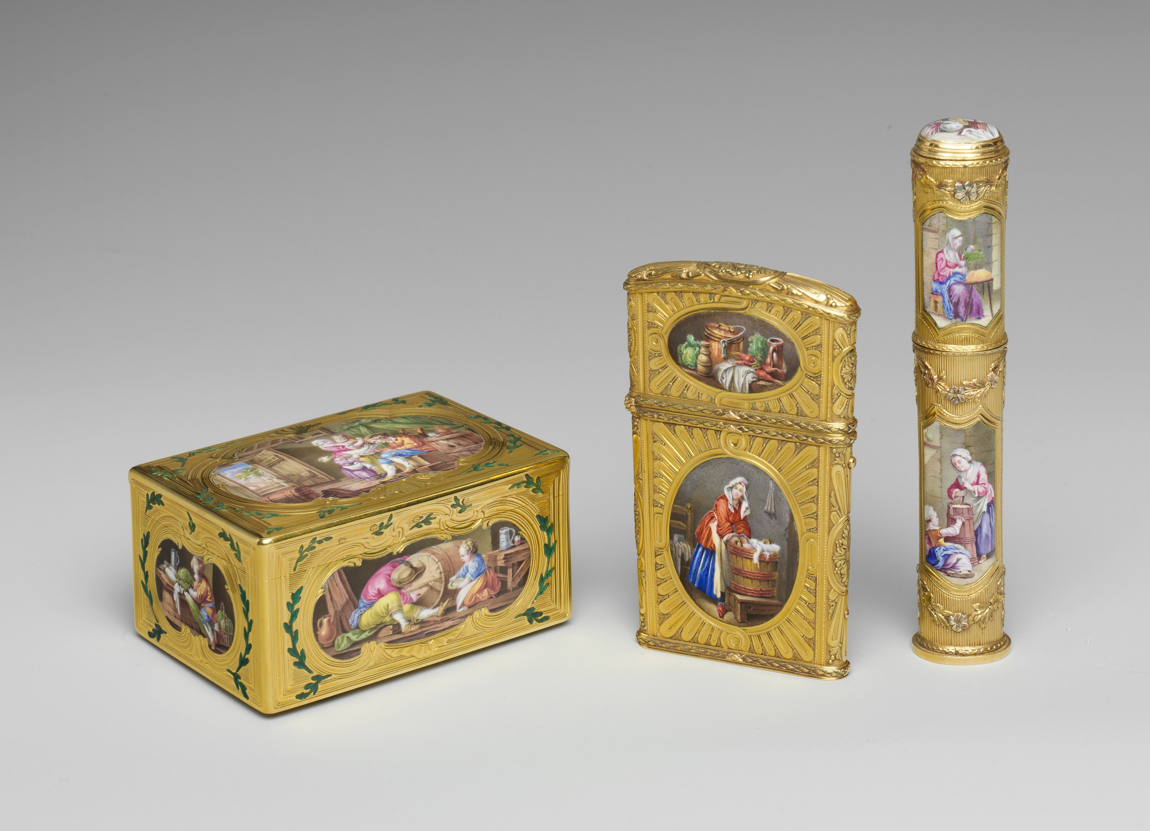 French, Paris; Souvenir; Metalwork-Gold and Platinum; box and other objects painted with Scenes after paintings by Jean Siméon Chardin (French, Paris 1699–1779 Paris)